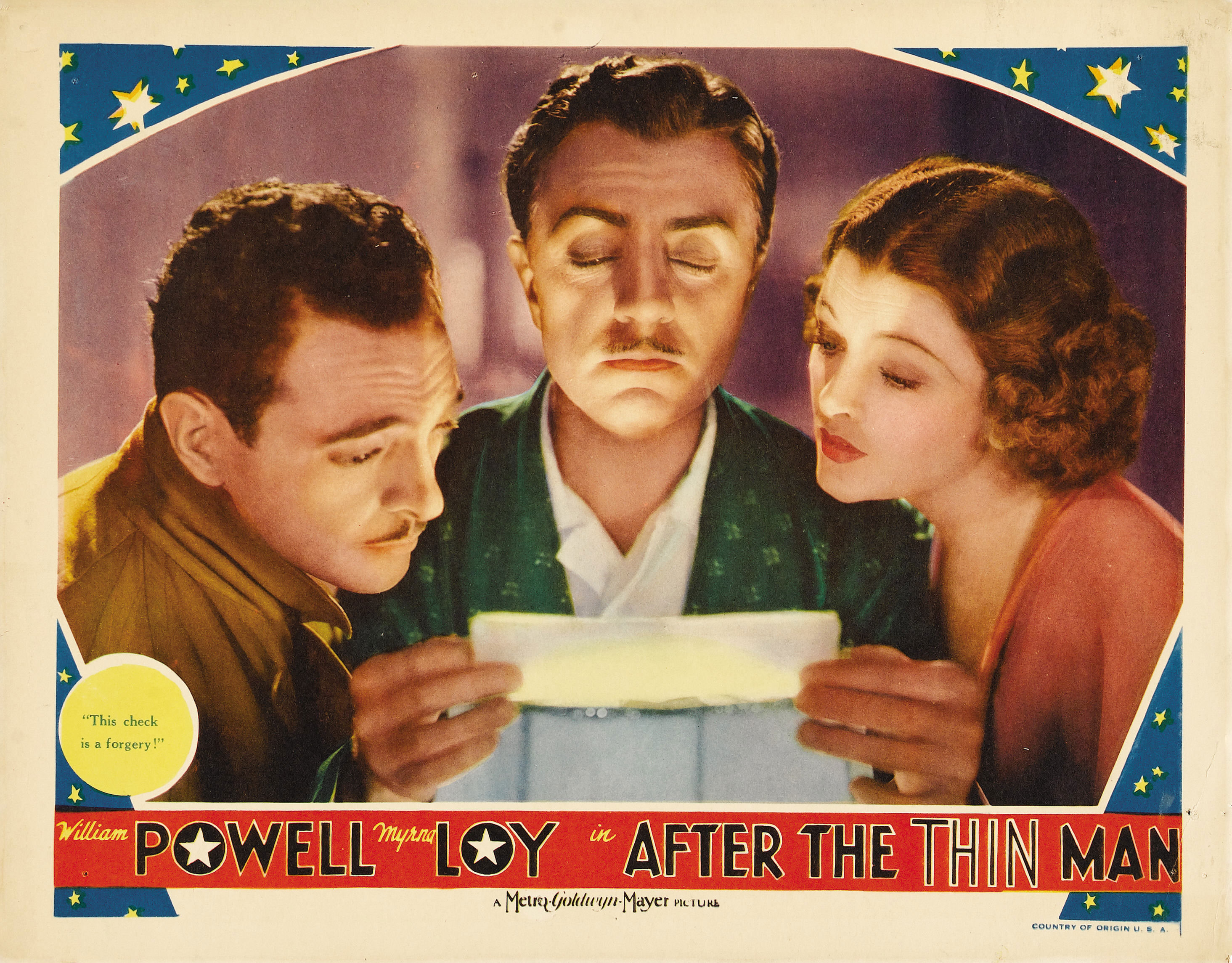 Lobby card for the 1936 film After the Thin Man